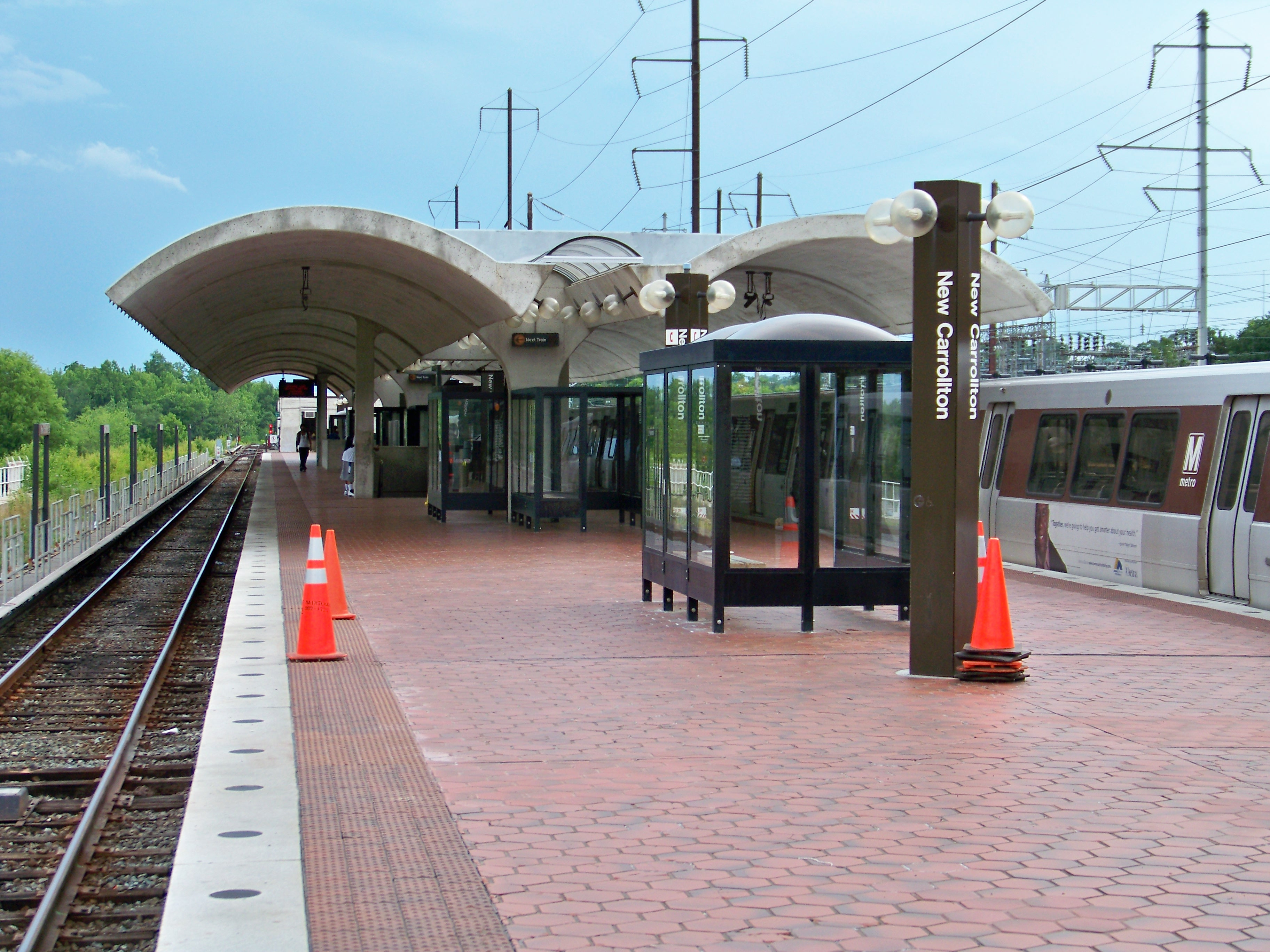 New Carrollton station.